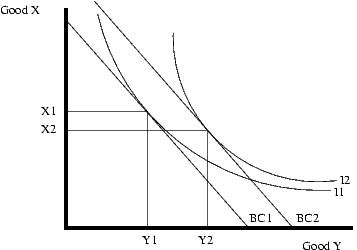 example of inferior good.